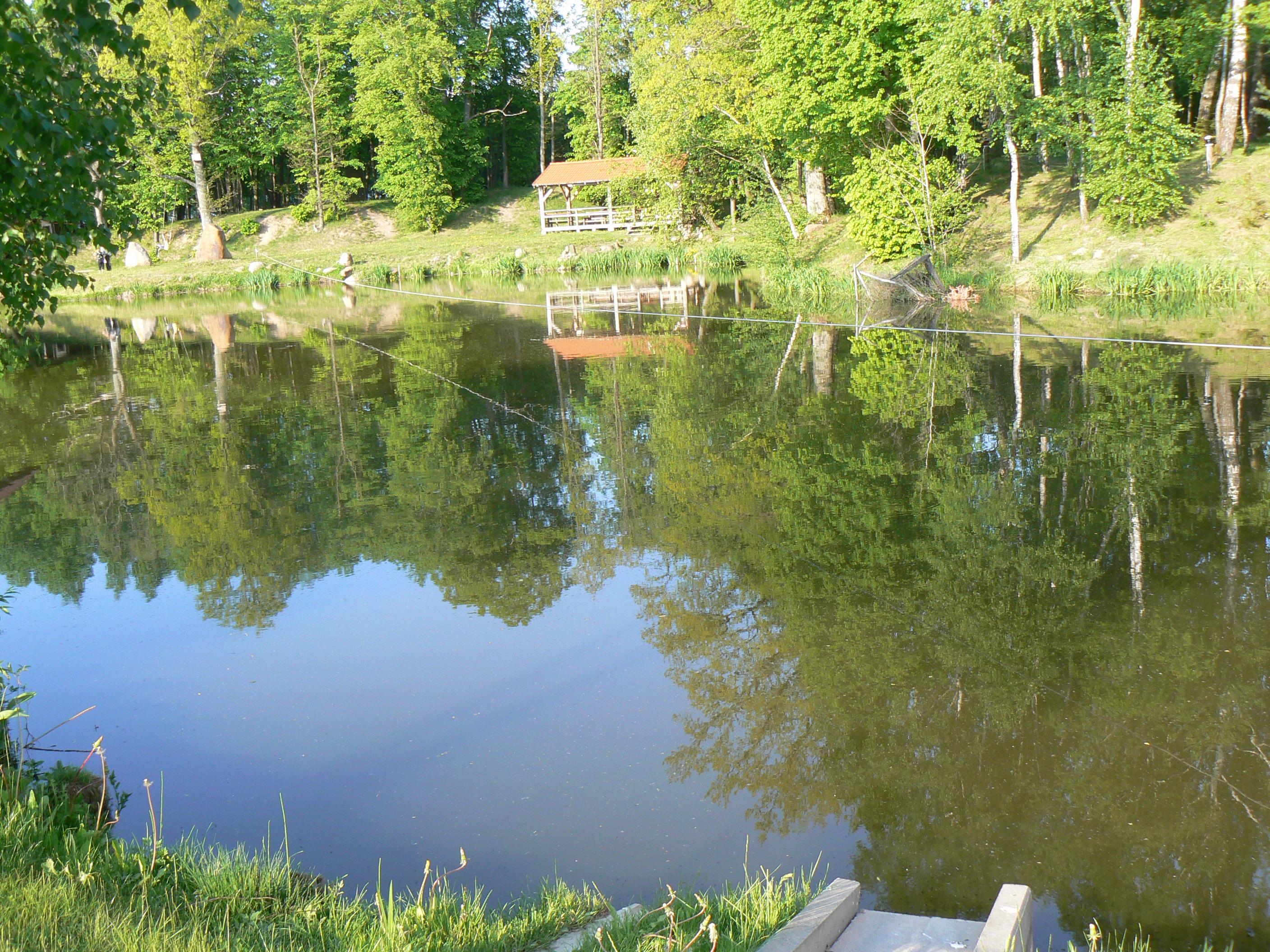 Pond on Župė near Radaliai manor